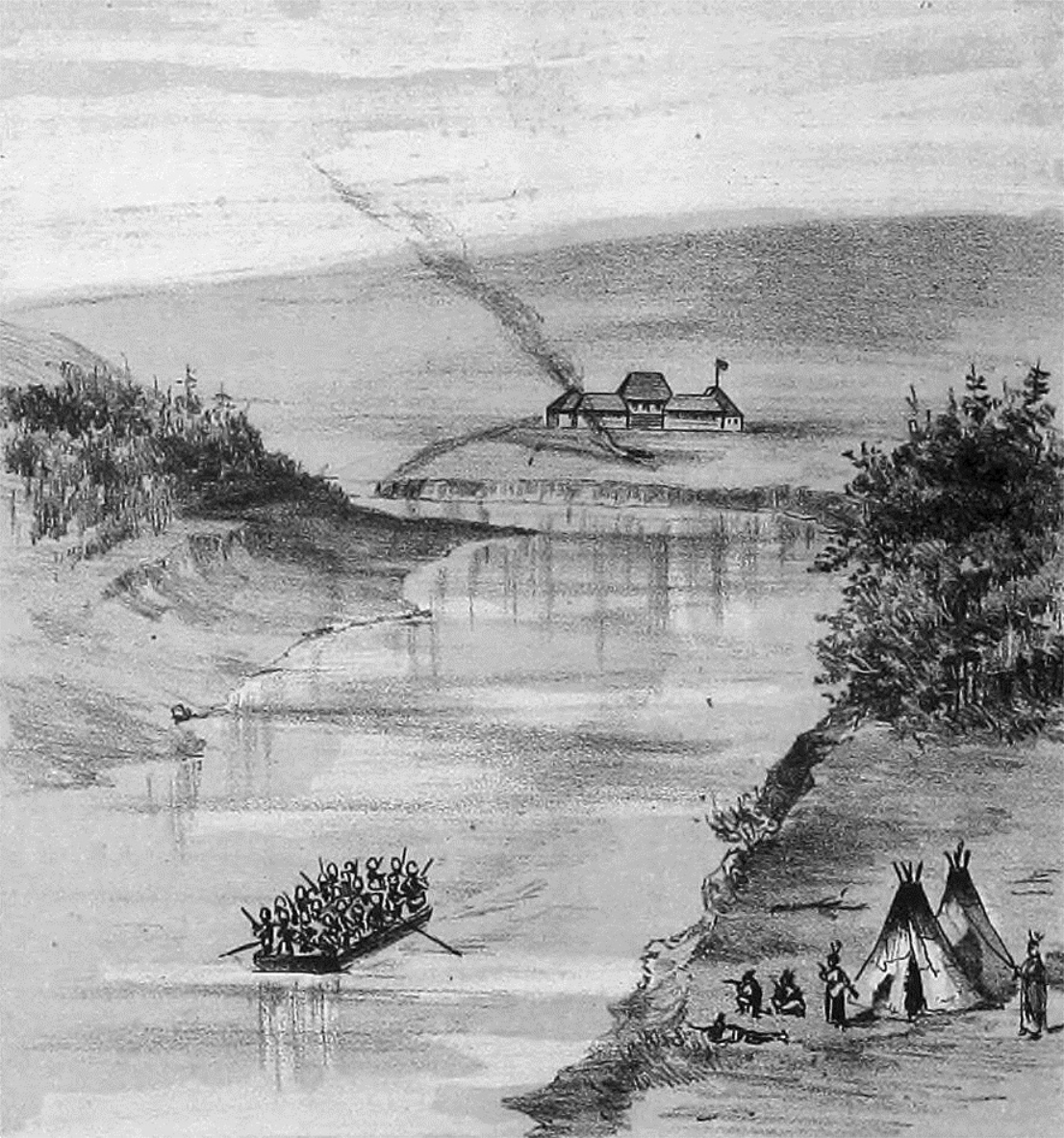 Evacuation of Fort Pitt